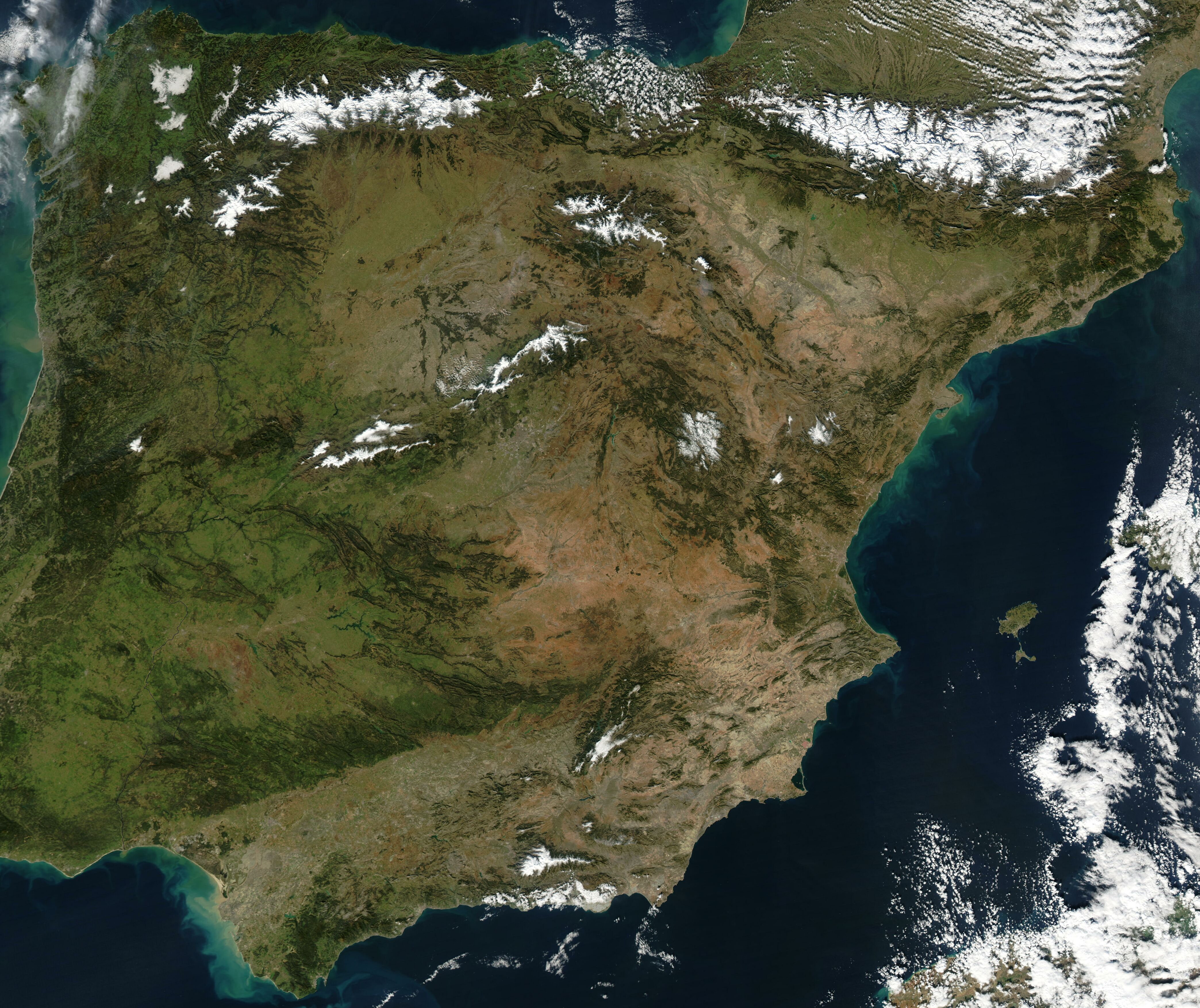 Satellite image of Spain in January 2003. Slightly cropped image, original taken from NASA's Visible Earth NASA's description: The Iberian Peninsula, home to the countries of Spain and Portugal, stretches toward North Africa in this true-color Aqua MODIS image from January 24, 2003. Portugal sits on the Atlantic side of the peninsula, while Spain takes up the rest and shares a border with France to the northeast. At the bottom of the peninsula is a narrow gap between Europe and North Africa. This gap is the Strait of Gibraltar, which also serves as the buffer between the Atlantic Ocean and the Mediterranean Sea. The northern point of Morocco occupies the other side of the Strait, and farther to the east is northern Algeria.